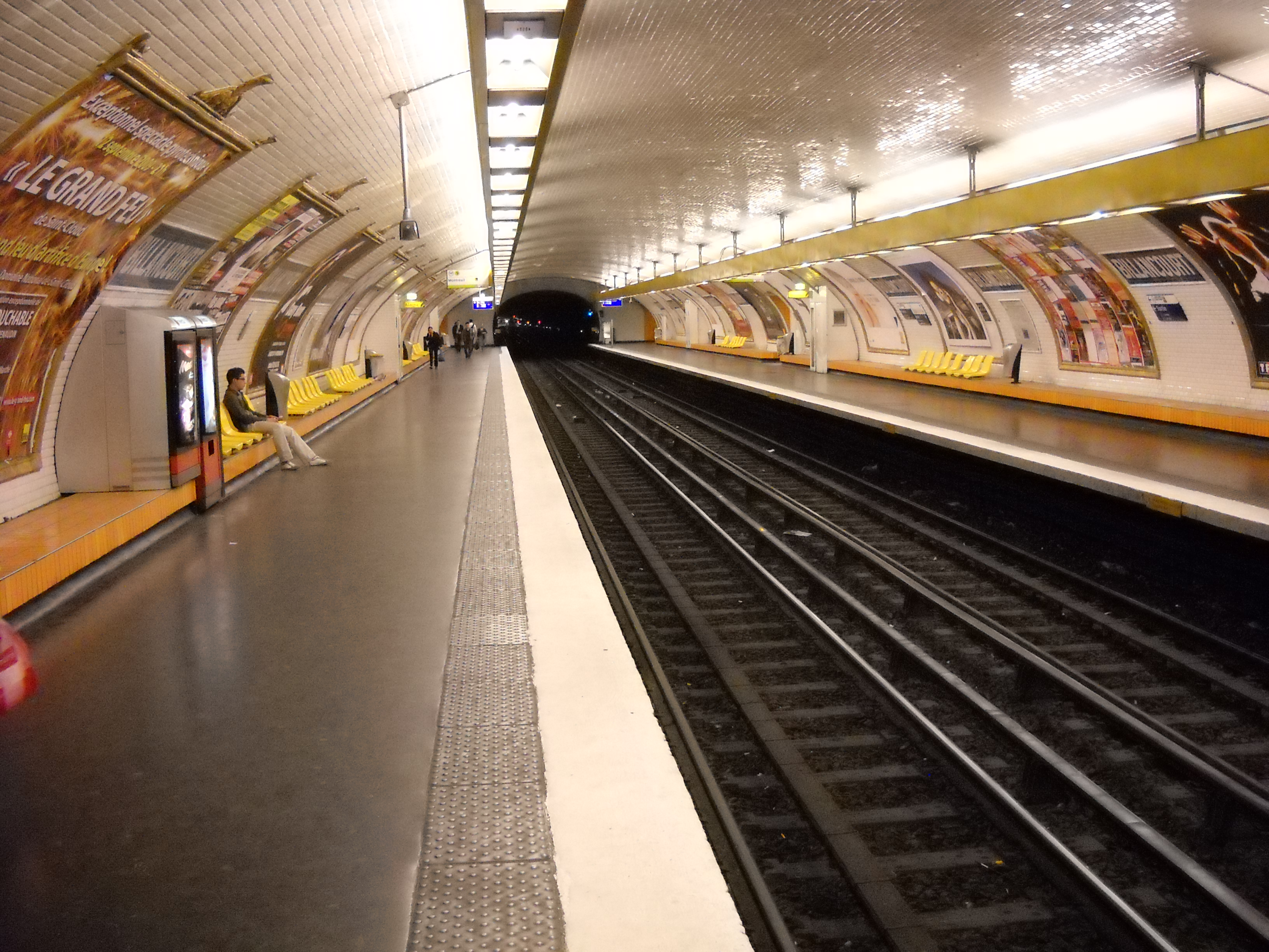 Billancourt station, on Paris metro line 9.